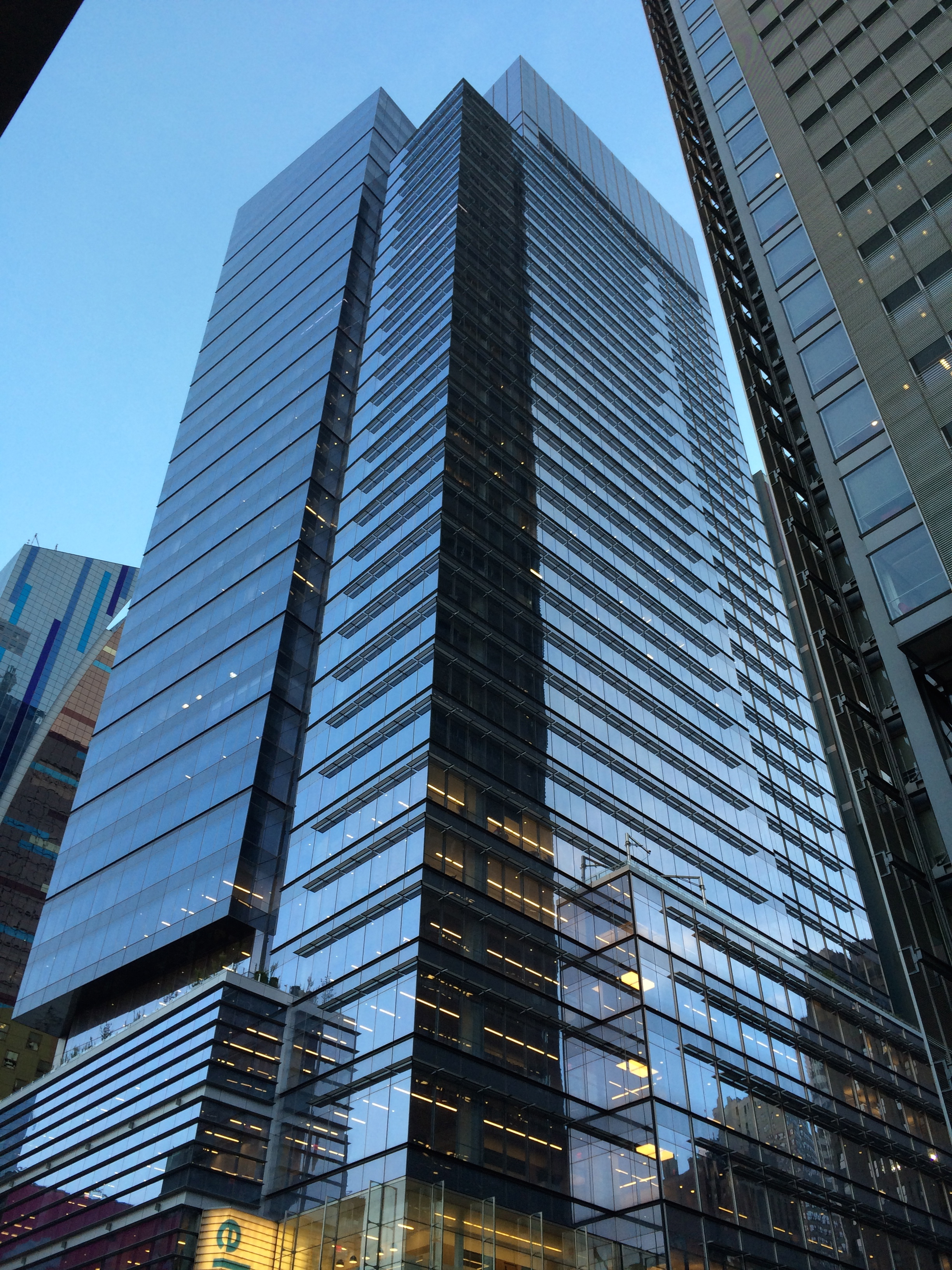 11 Times Square viewed from the southeast corner of West 41st Street and Eighth Avenue in Midtown Manhattan, New York City, New York. Photographed by Quercus montana